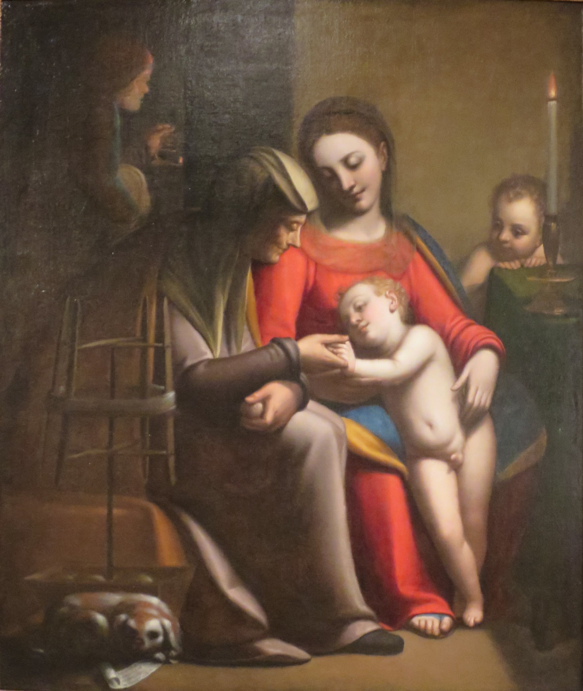 The Holy Family with Saints Anne and John the Baptist